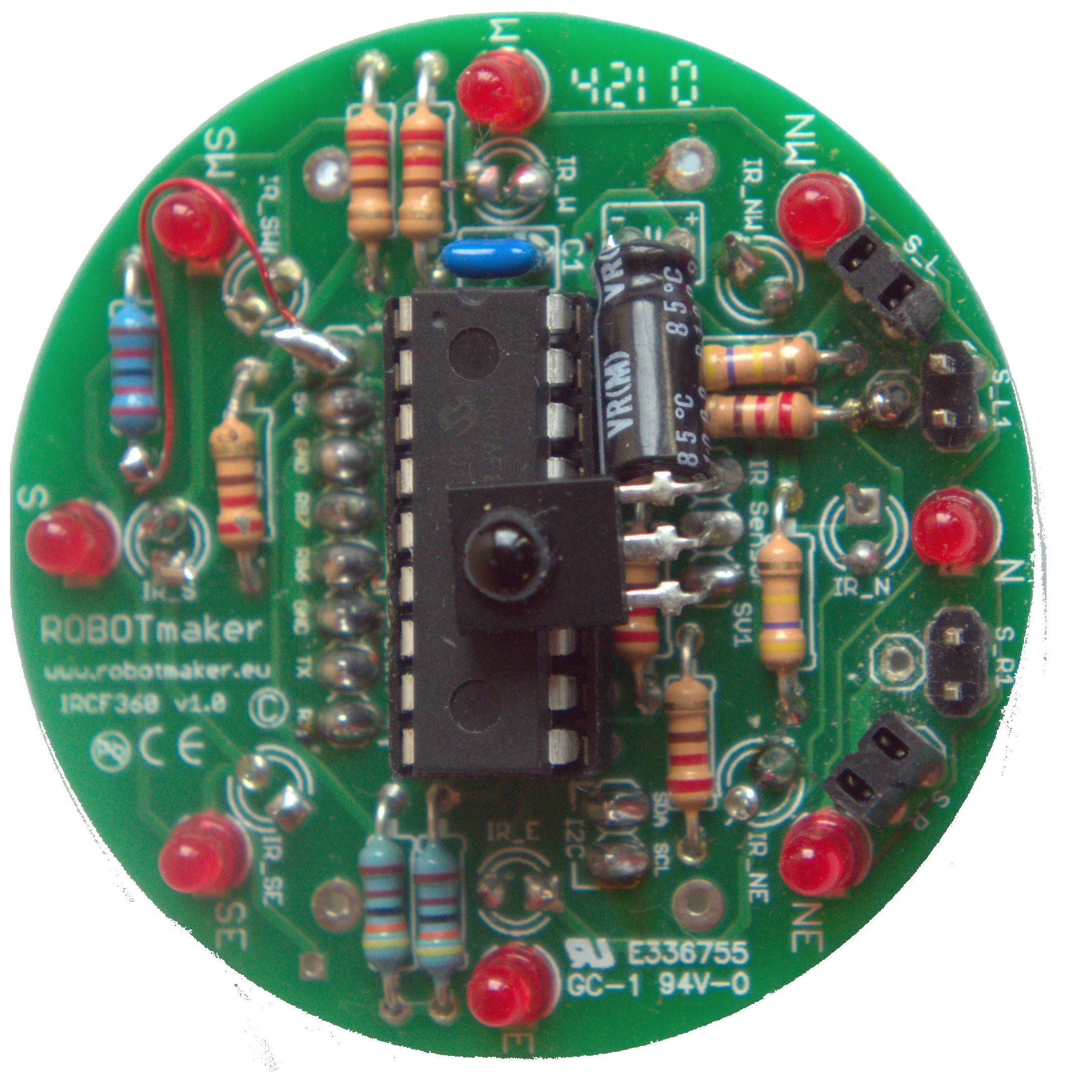 A 360 degree - 3D HID sensor